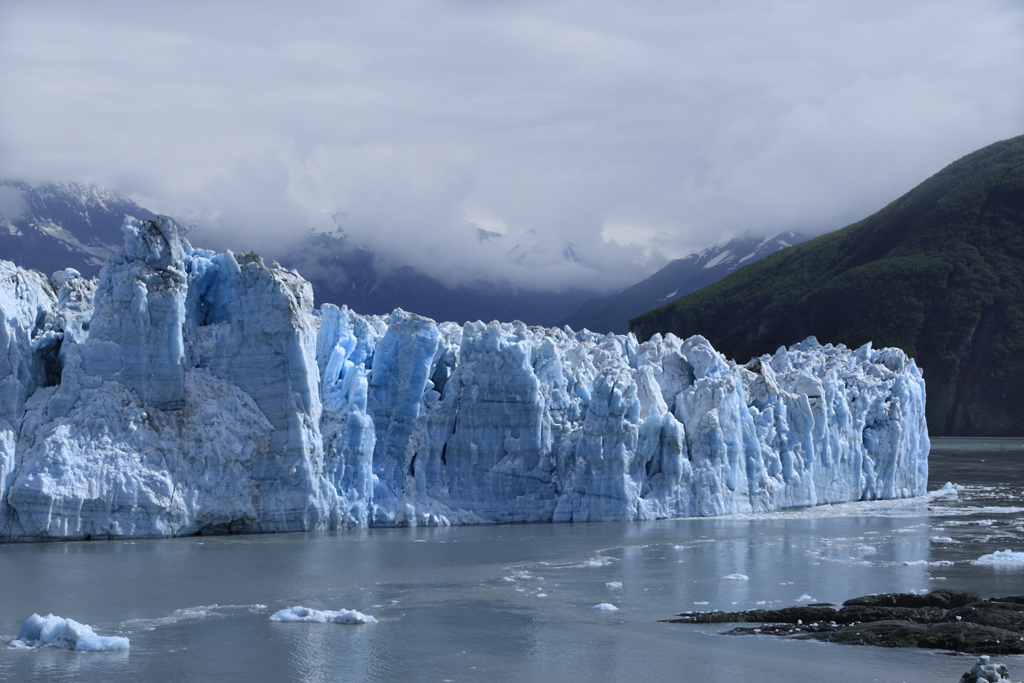 The land on the right of the image is Gilbert Point. Hubbard Glacier has been thickening and advancing since scientists first measured it in 1895. If this ice face continues to advance towards Gilbert Point, it will close the seaward entrance of Russell Fiord and could create the largest glacier-dammed lake on the North American continent in historic times. Reference This could mandate the relocation of many Yukatat peoples and destroy their livelihoods.